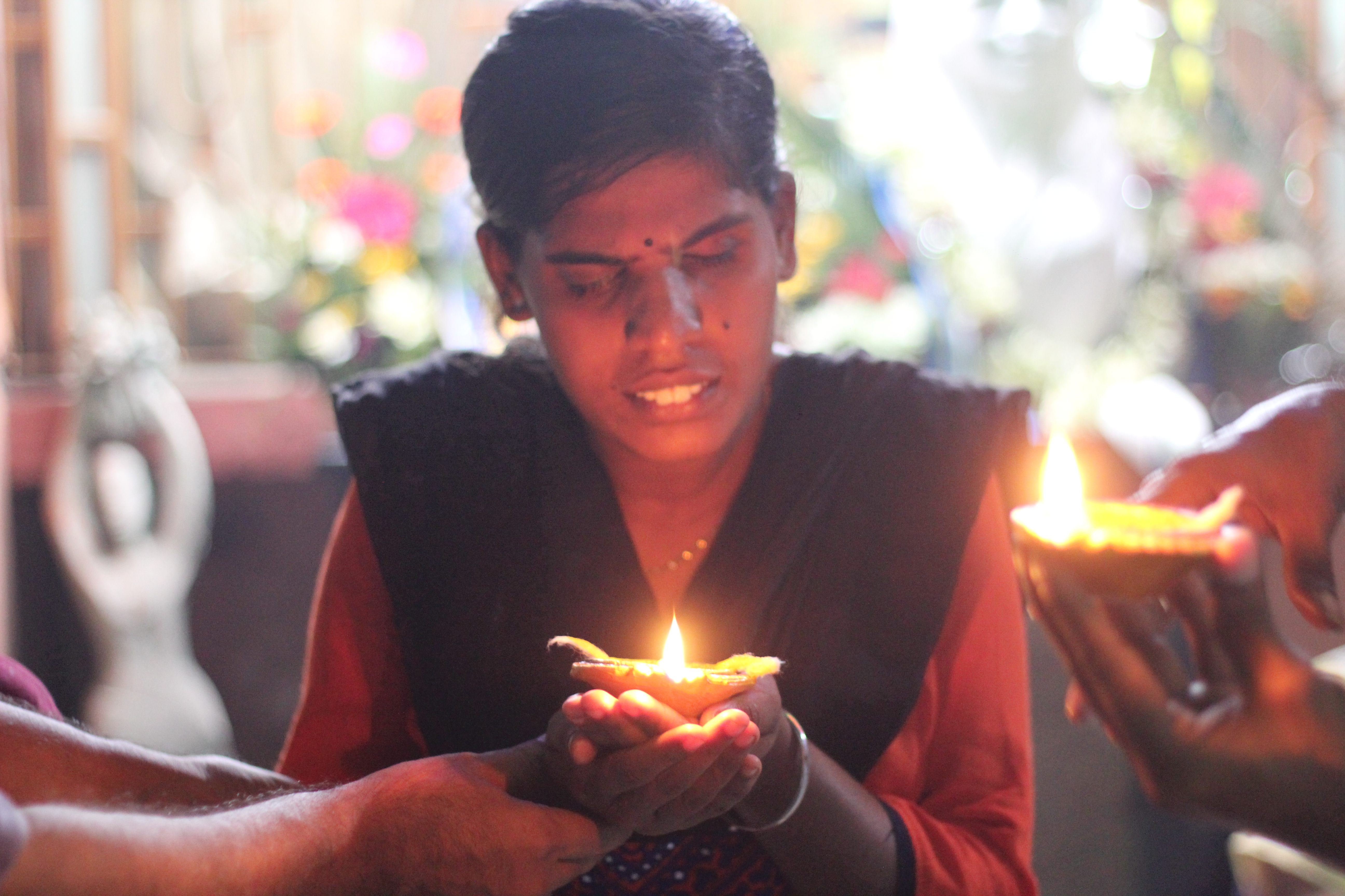 Deepavali celebration with inclusiveness